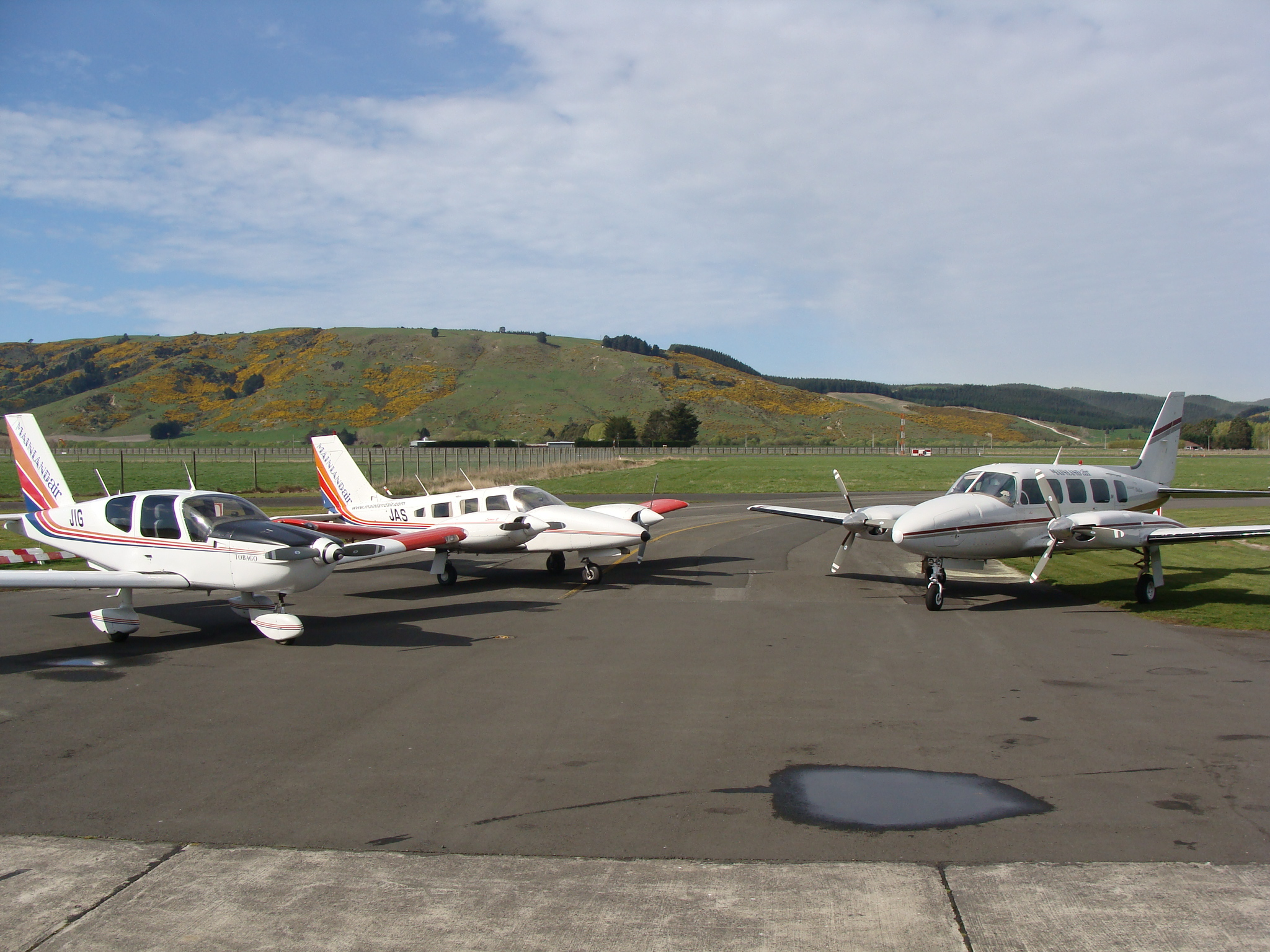 Mainland Air charter fleet. Tobago ZK-JIG, Seneca ZK-JAS, and Chieftain ZK-KVW at Dunedin International Airport. Author: Jordan Kean. Source: Jordan Kean. Created 2009.